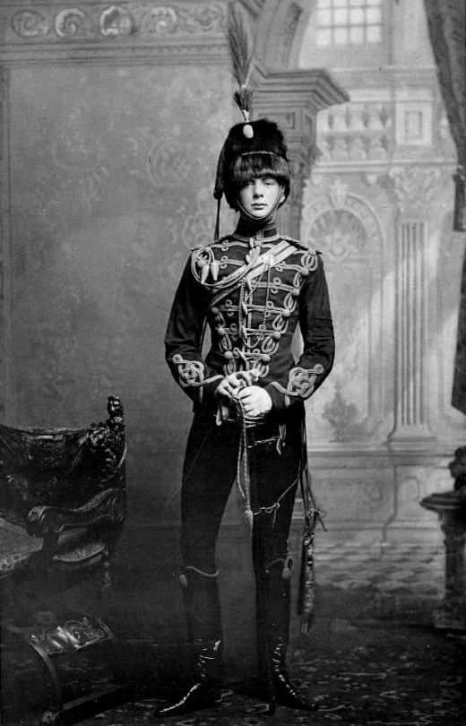 The young 21 years old Cornet, (Second Lieutenant) Winston Spencer Churchill of the 4th Queens Hussars. 1895